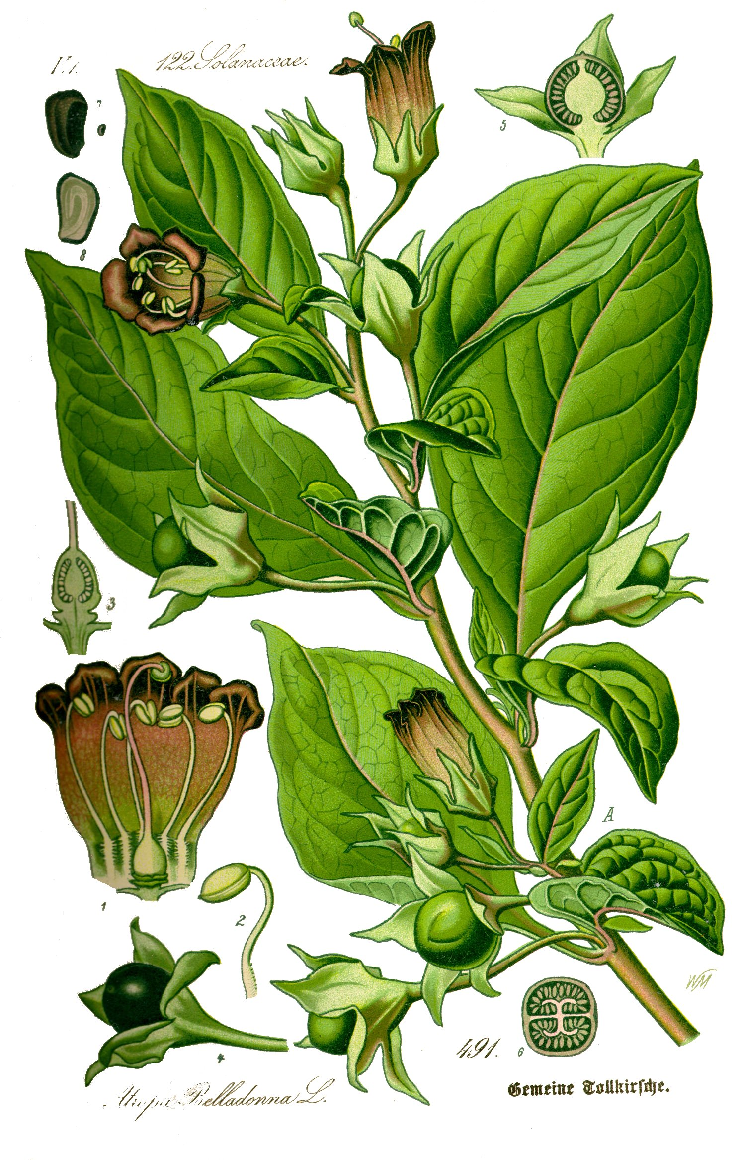 Name Atropa belladonna Family Solanaceae